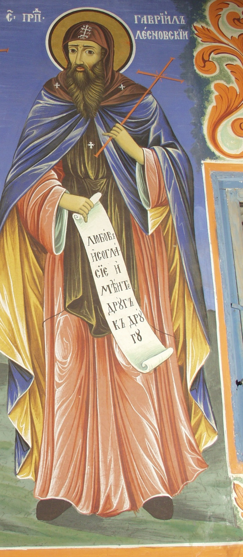 Archangels Chapel in Rila Monastery Frecos.